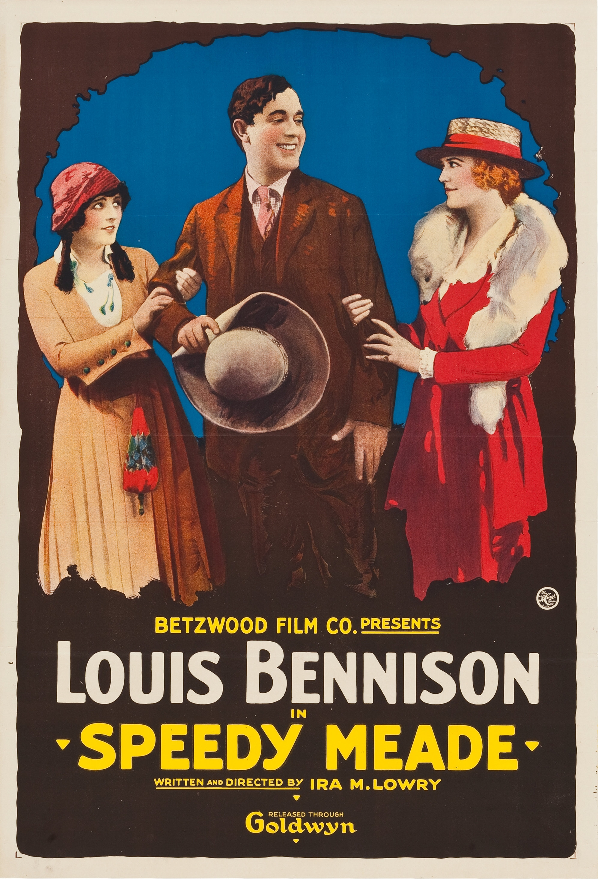 This is a poster for the 1919 American silent Western film Speedy Meade.